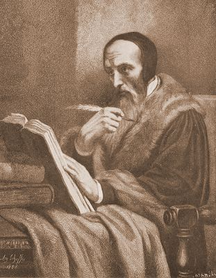 John Calvin